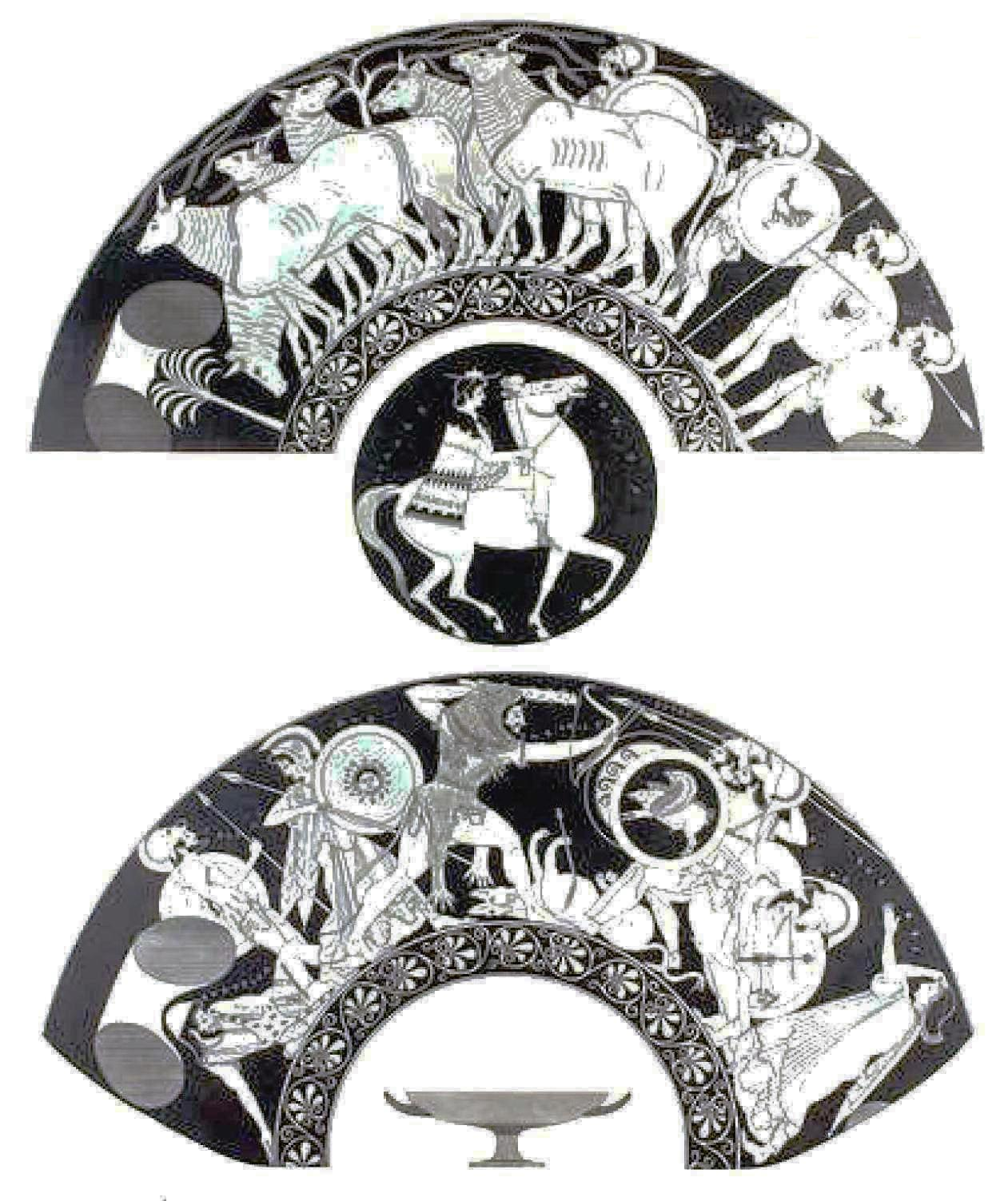 Kylix by Euphronios. Herakles slaving Geryion